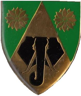 SADF era Commando Van Rynsdorp emblem